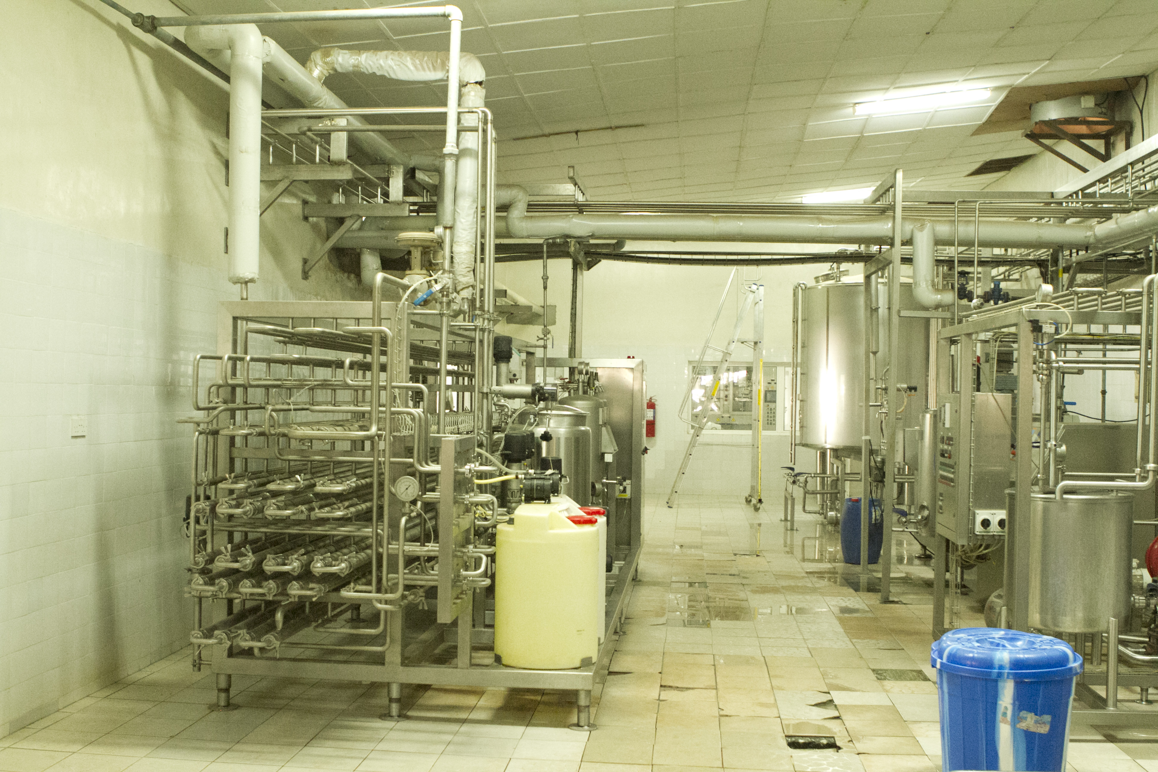 State-of-the-art mechanized equipment at the Shonga diary farm